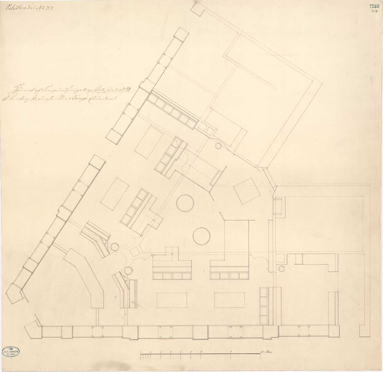 Plan of Herman Jacob Bing's shop in Kronprinsessegade in Copenhagen, Denmark